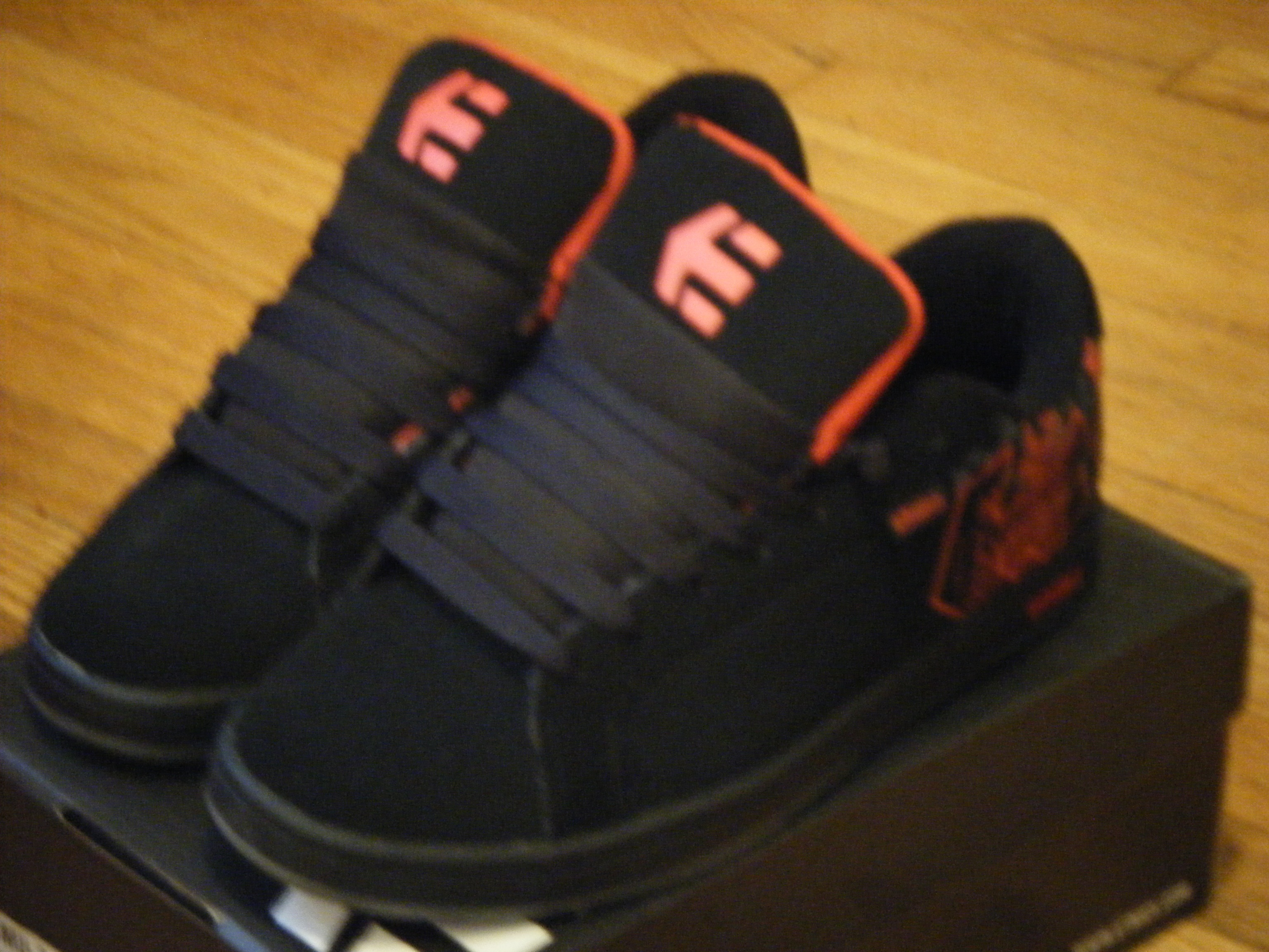 A pair of black Etines skateboard shoes.